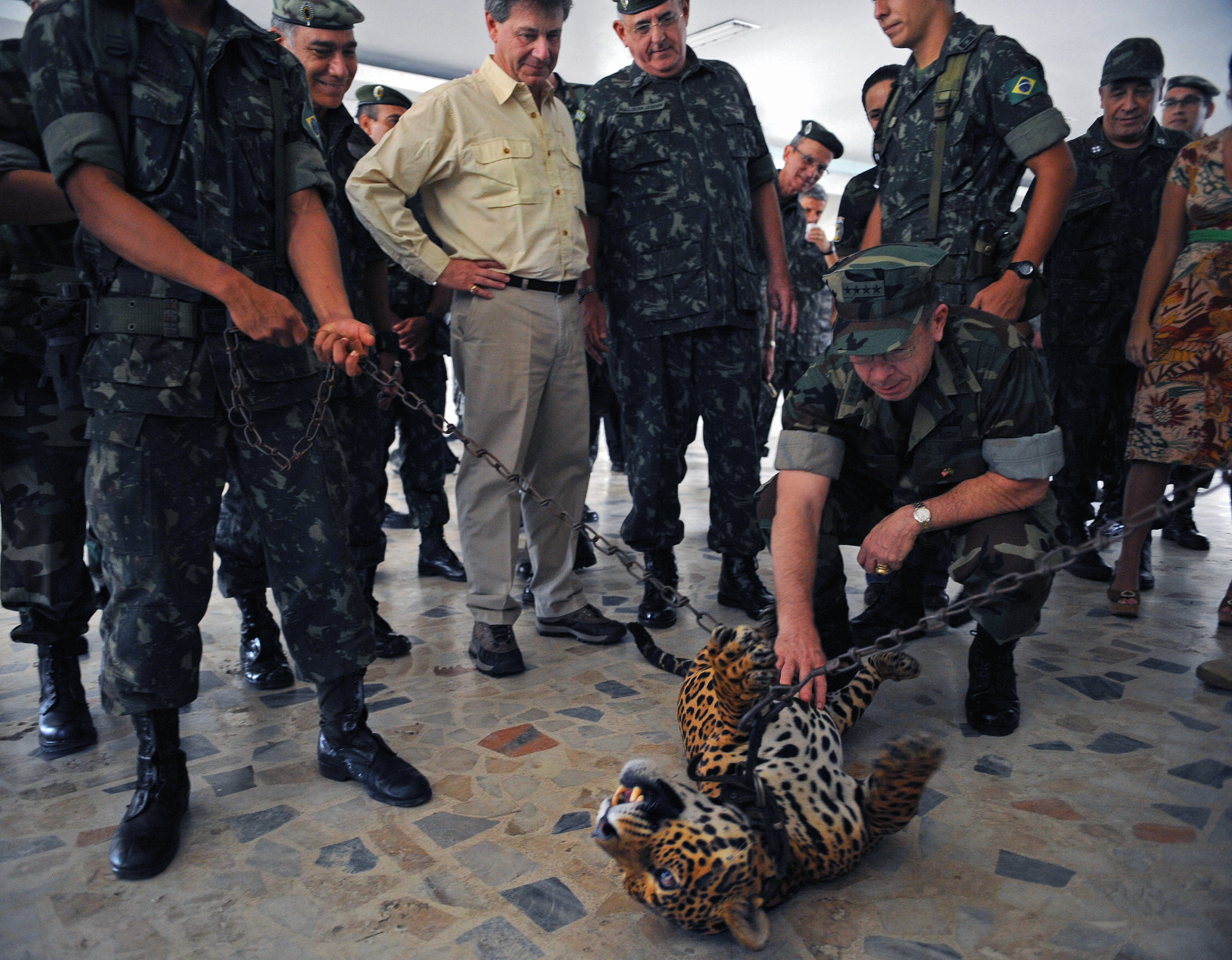 U.S. Navy Adm. Mike Mullen, chairman of the Joint Chiefs of Staff, pets the belly of a jaguar during a visit to Manaus, Brazil, March 2, 2009.